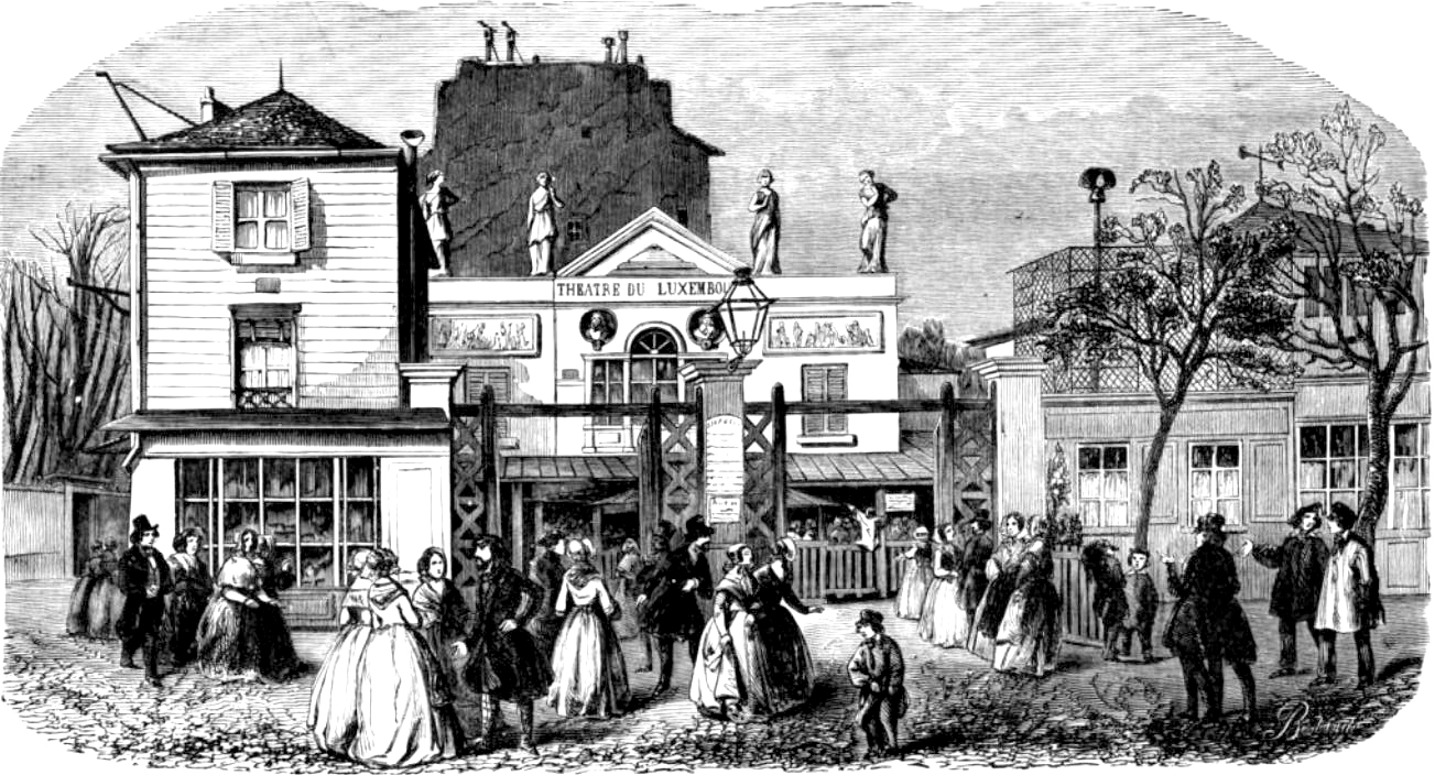 The Theater of the Luxembourg, known as the Bobino Theater.